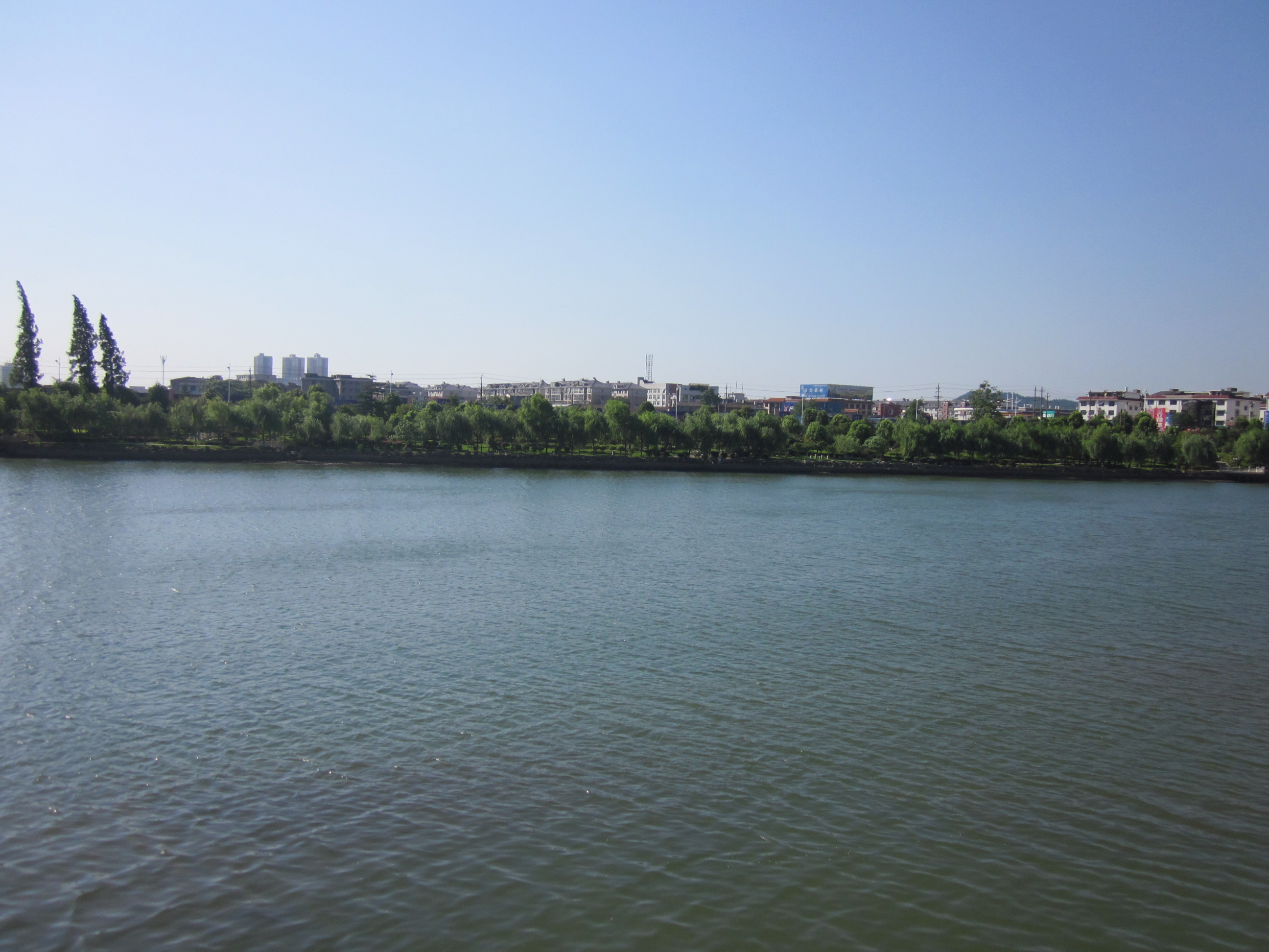 Wei River,Ning Xiang county